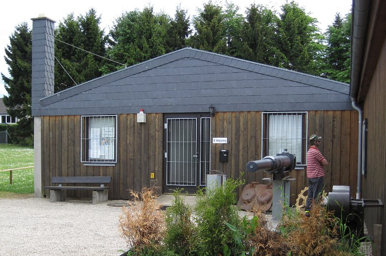 Vossenack Heimatmuseum about Hürtgenwald battle, Germany. A 8,8-cm-Flak 36 gun barrel shown left from entry. Gun barrel has been removed in 2016